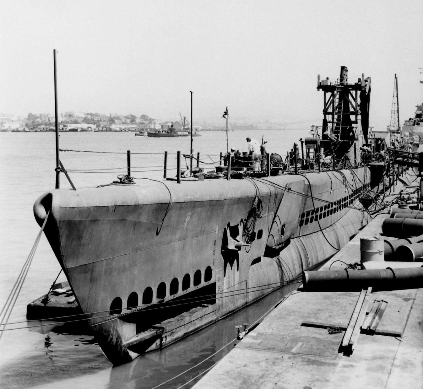 Bow view of the USS Spot (SS-413) at her outfitting berth at Mare Island on 3 July 1944. The USS Trepang (SS-412) is in the background returning from bay trials. USN photo # 4142-44, courtesy of Darryl Baker.